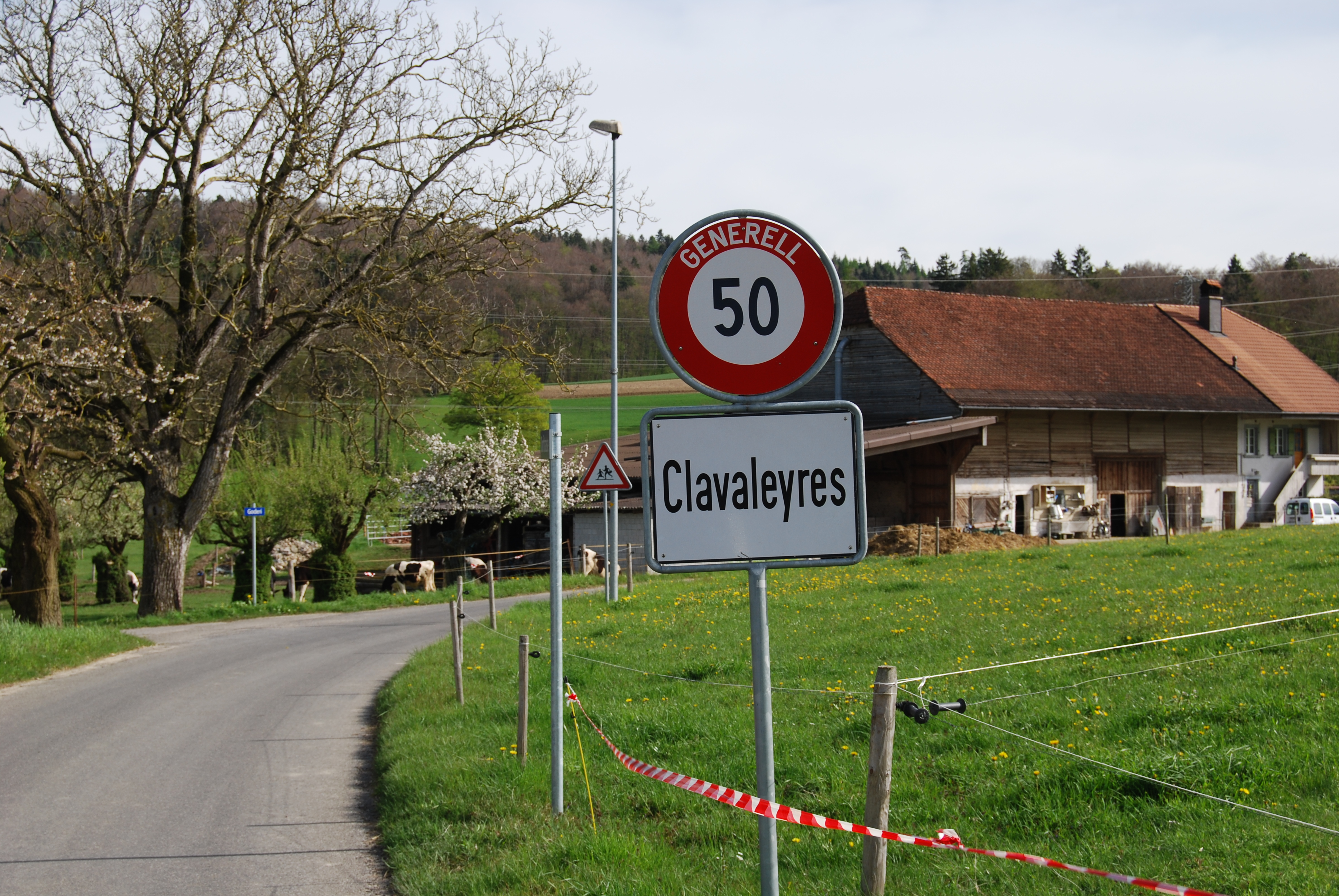 Clavaleyres, canton of Bern, SwitzerlandEsperanto: Clavaleyres, Kantono Berno, Svislando